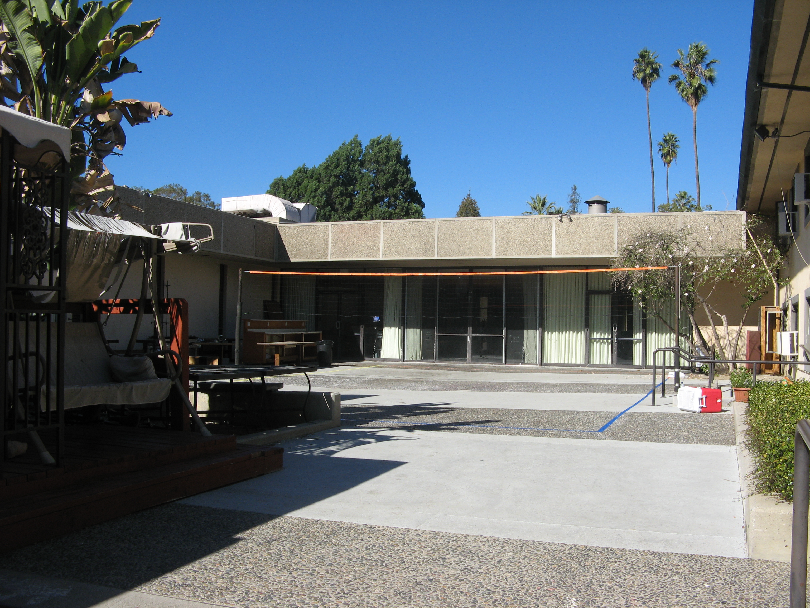 Ruddock House courtyard at the California Institute of Technology in November 2008.